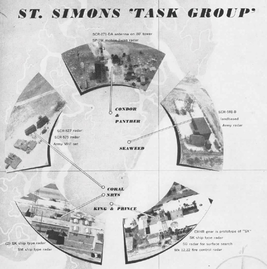 Chart showing the installations of the U.S. Naval Radar Training Station St. Simons, Georgia (USA), in the mid-1940s. Although NAS St. Simons Island remained an active air station following the Second World War, its activities were eventually merged into nearby NAS Glynco and by 1947 it was finally closed as a naval air station and returned to its use as a civilian airport.